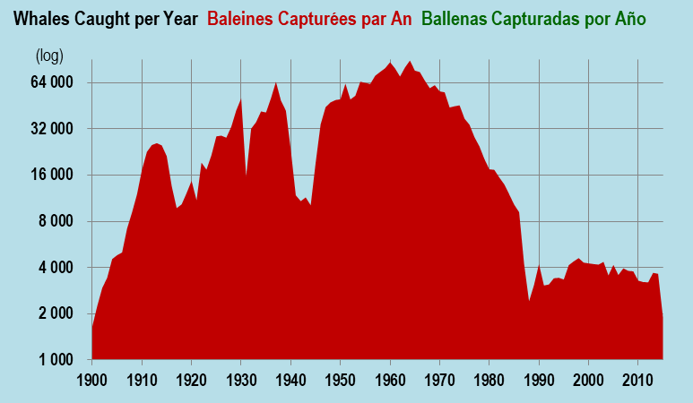 Whales Caught per Year Main source: Great whales: plus Belugas as cited in Beluga whale and Narwhals from